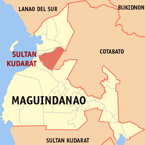 Map of the Maguindanao showing the location of Sultan Kudarat